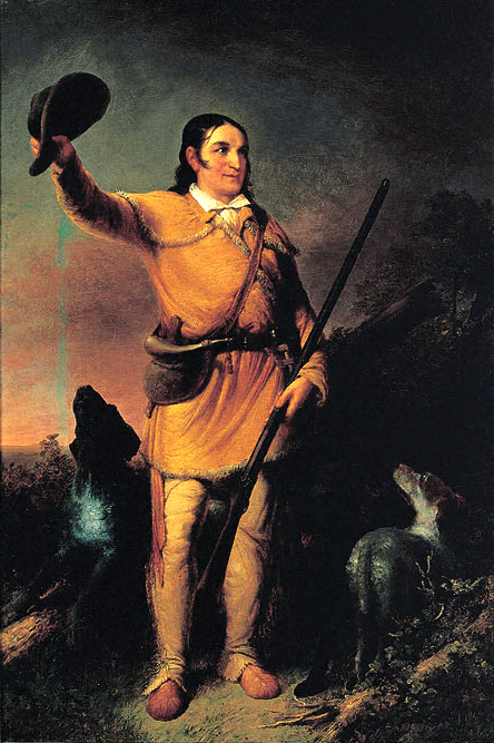 Portrait of David Crockett, by John Gadsby Chapman, oil on canvas [n. d.].